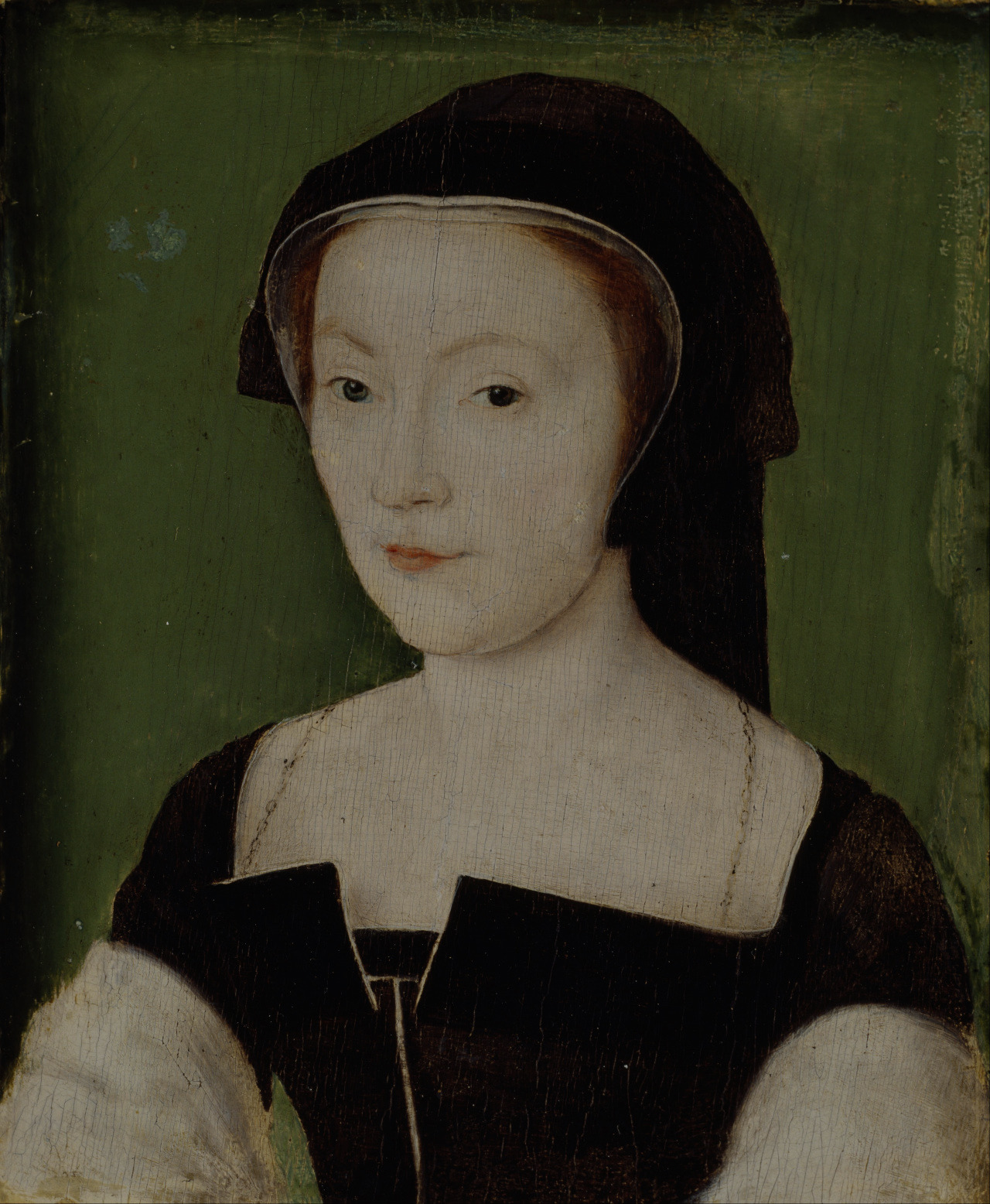 Portrait of Mary of Guise (1515 - 1560), Queen of James V of Scotland and mother of Mary, Queen of Scots